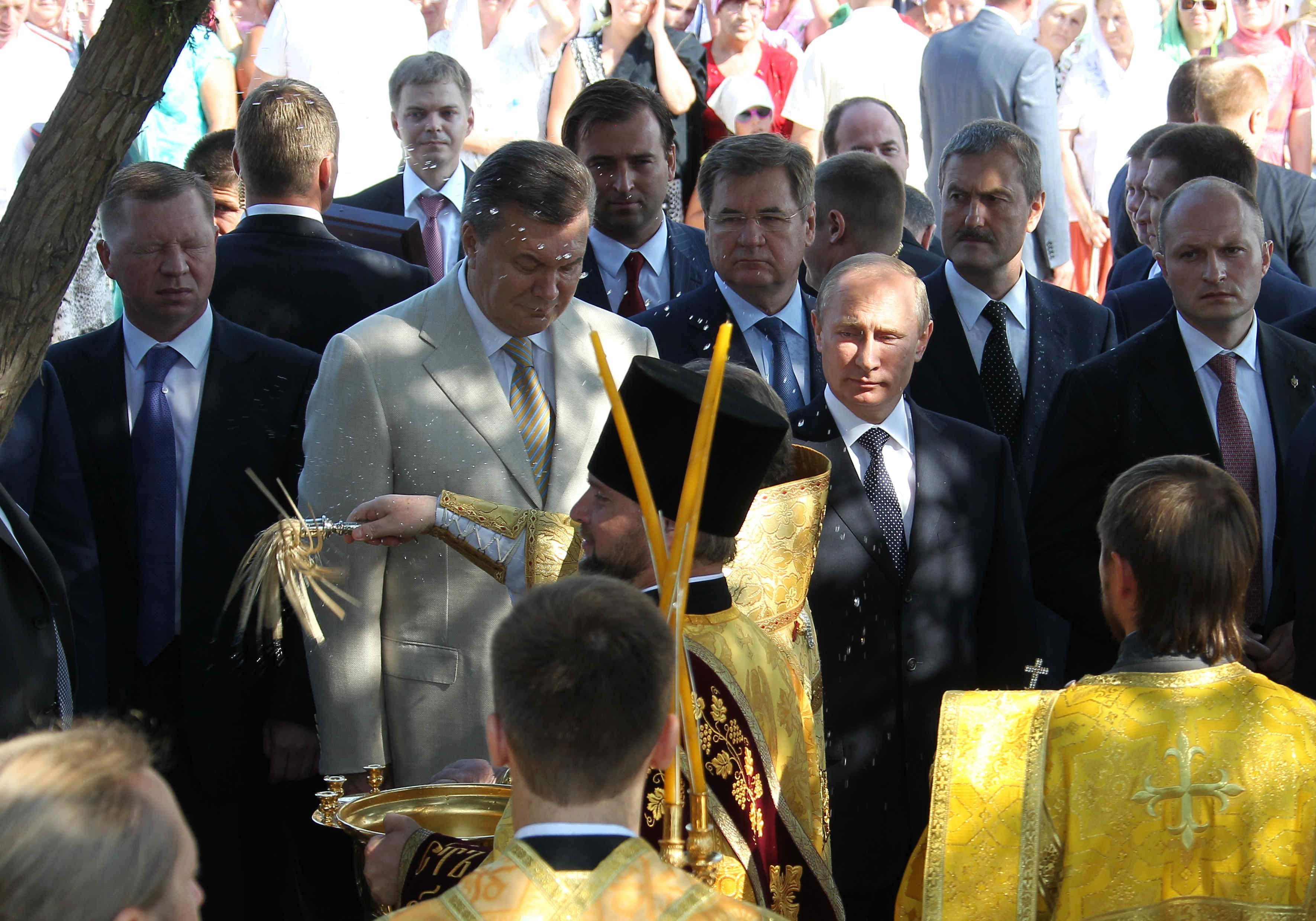 President of Ukraine Viktor Yanukovych and Vladimir Putin during moleben celebrated by metropolitan Lazarus of Simferopol and Crimea in memory of 1025 anniversary of christianization of Rus' in Khersonez.